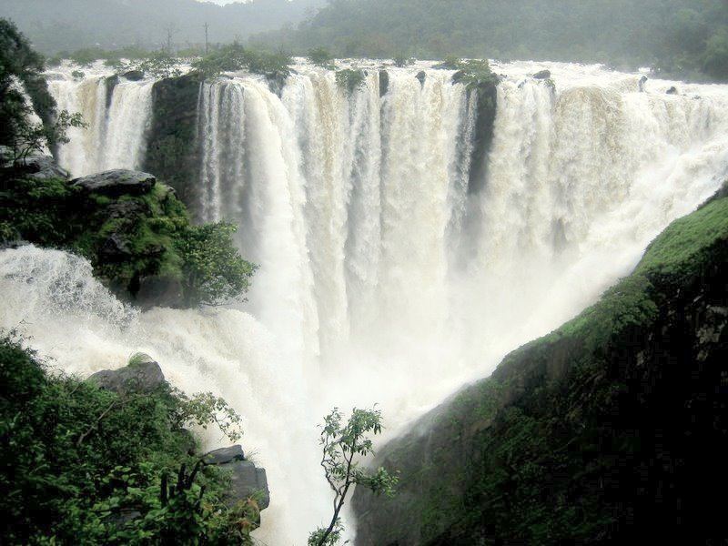 Joger Gerosoppa Falls Jog Falls is the second-highest plunge waterfall in India